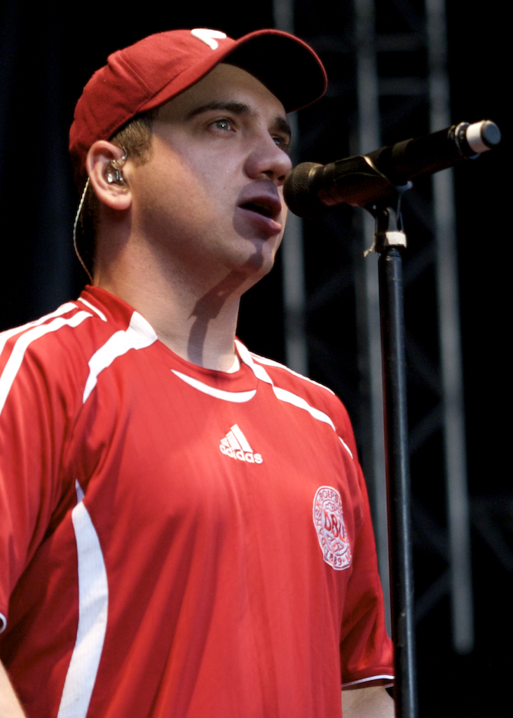 Jimmy Pop, leadsinger of the band Bloodhound Gang.